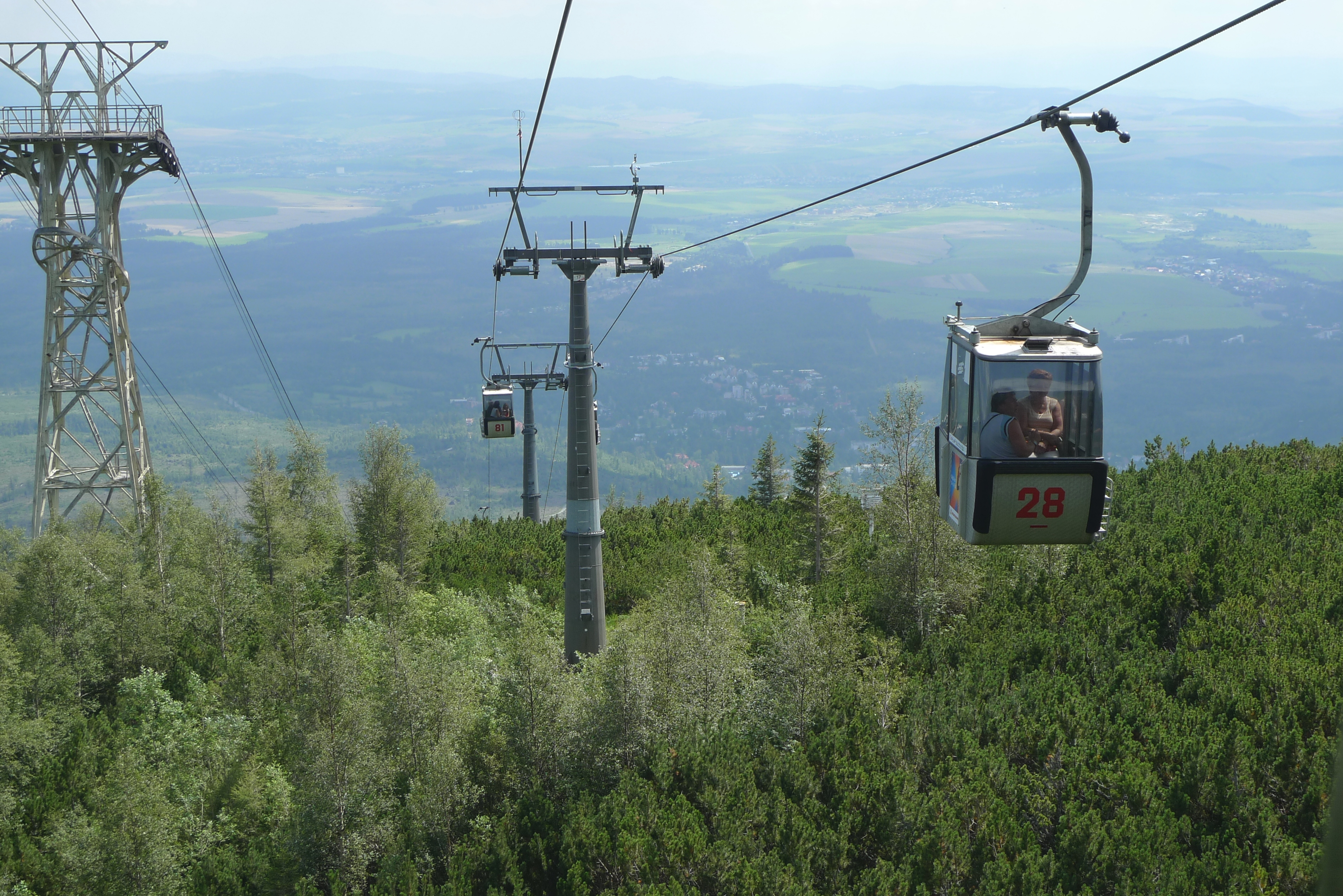 Gondola lift Tatranská Lomnica–Skalnaté pleso. Česky: Oběžná kabinková lanovka v úseku Tatranská Lomnica–Skalnaté pleso.